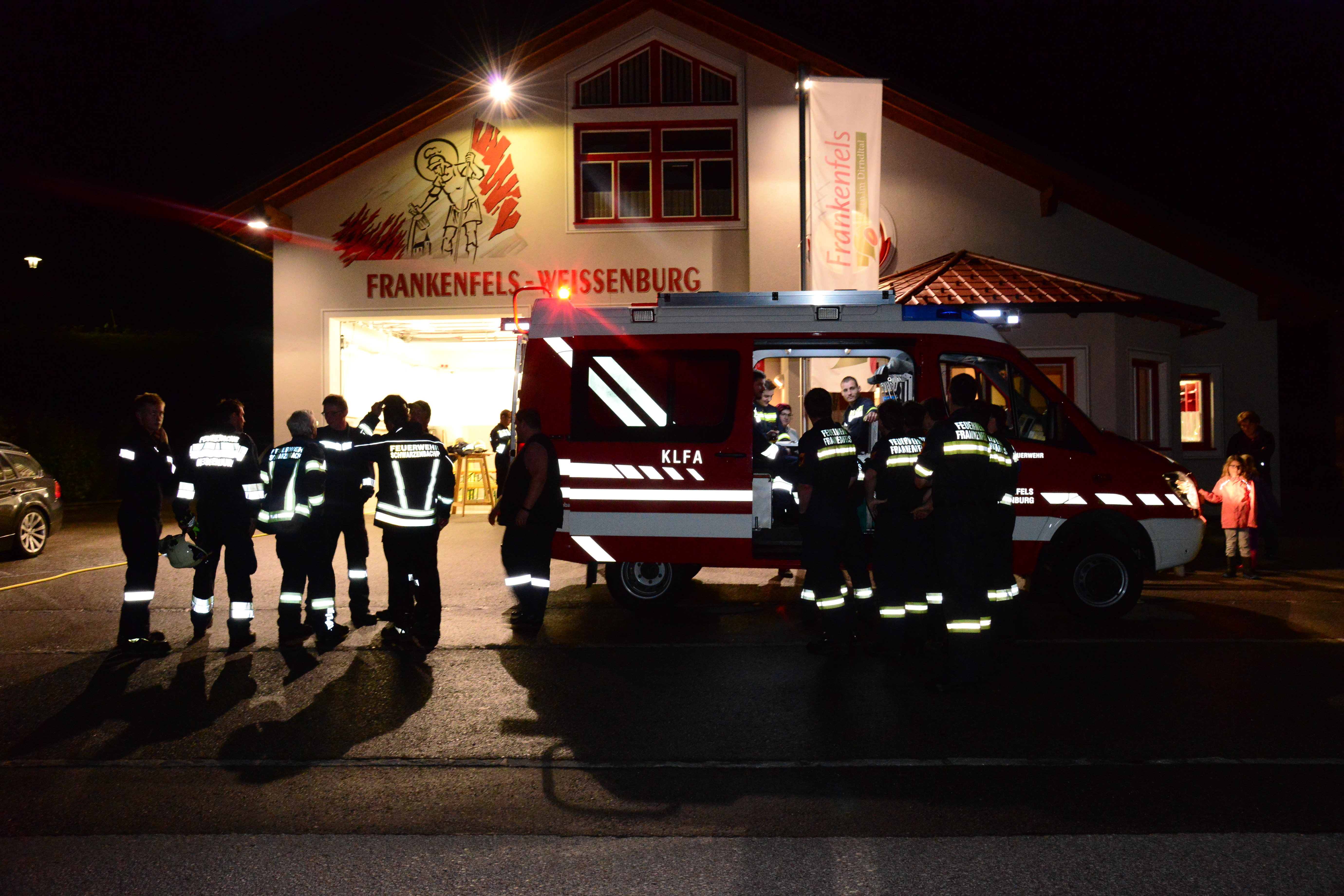 KLF-A Weißenburg and fire station Weißenburg at Unterabschnitts-Übung at Tiefgrabenrotte, Frankenfels, Austria.